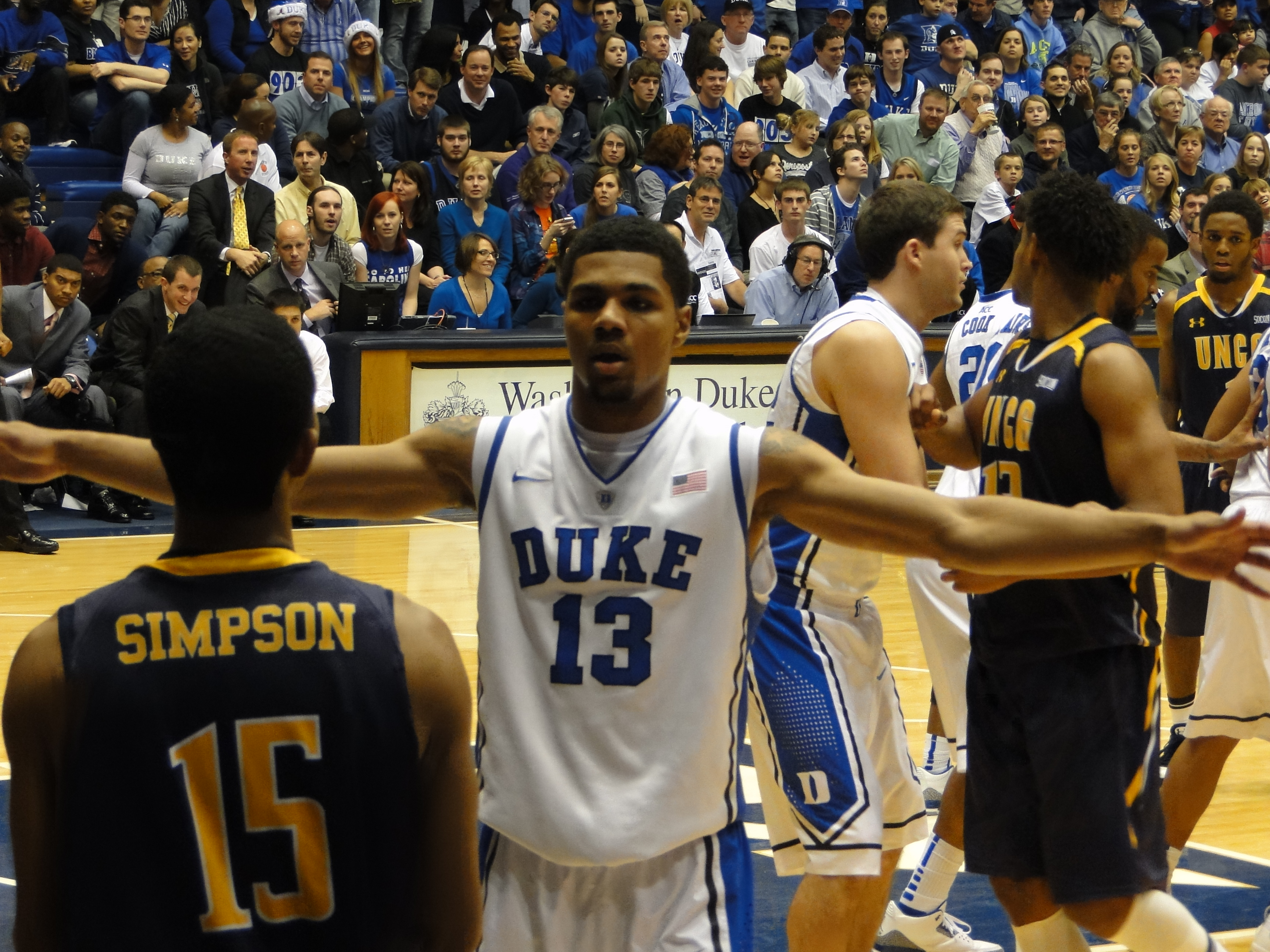 Michael Gbinije playing for the Duke Blue Devils during the 2011–12 season